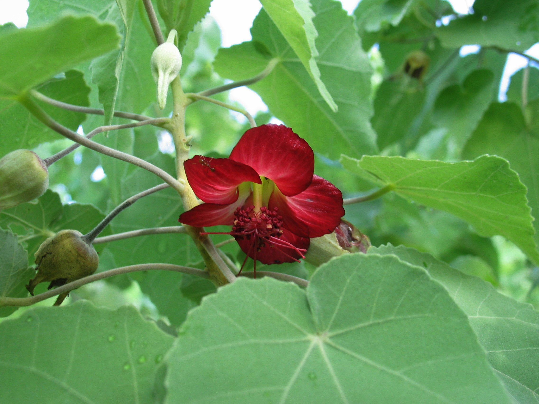 Koʻoloa ʻula Malvaceae Endemic to the Hawaiian Islands Endangered Oʻahu (Cultivated), Oʻahu form